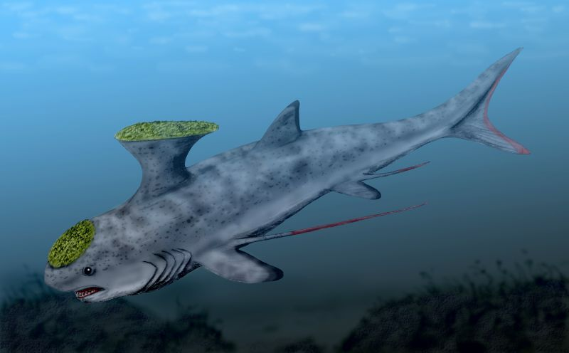 Akmonistion (formerly Stethacanthus) zangerli, a primitive shark from the Carboniferous of Scotland, pencil drawing, digital coloring